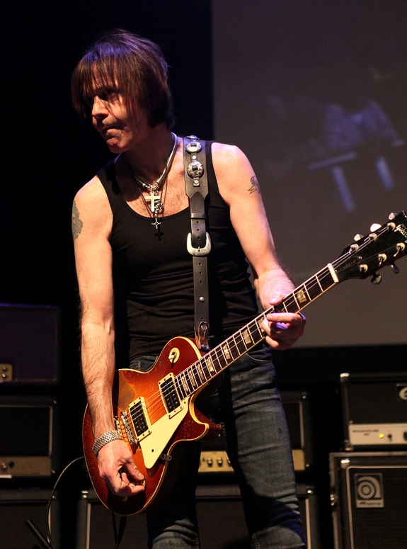 Vibe for Philo at Vicar Street 4th January 2011. The 25th Vibe with Brian Robbo Robertson